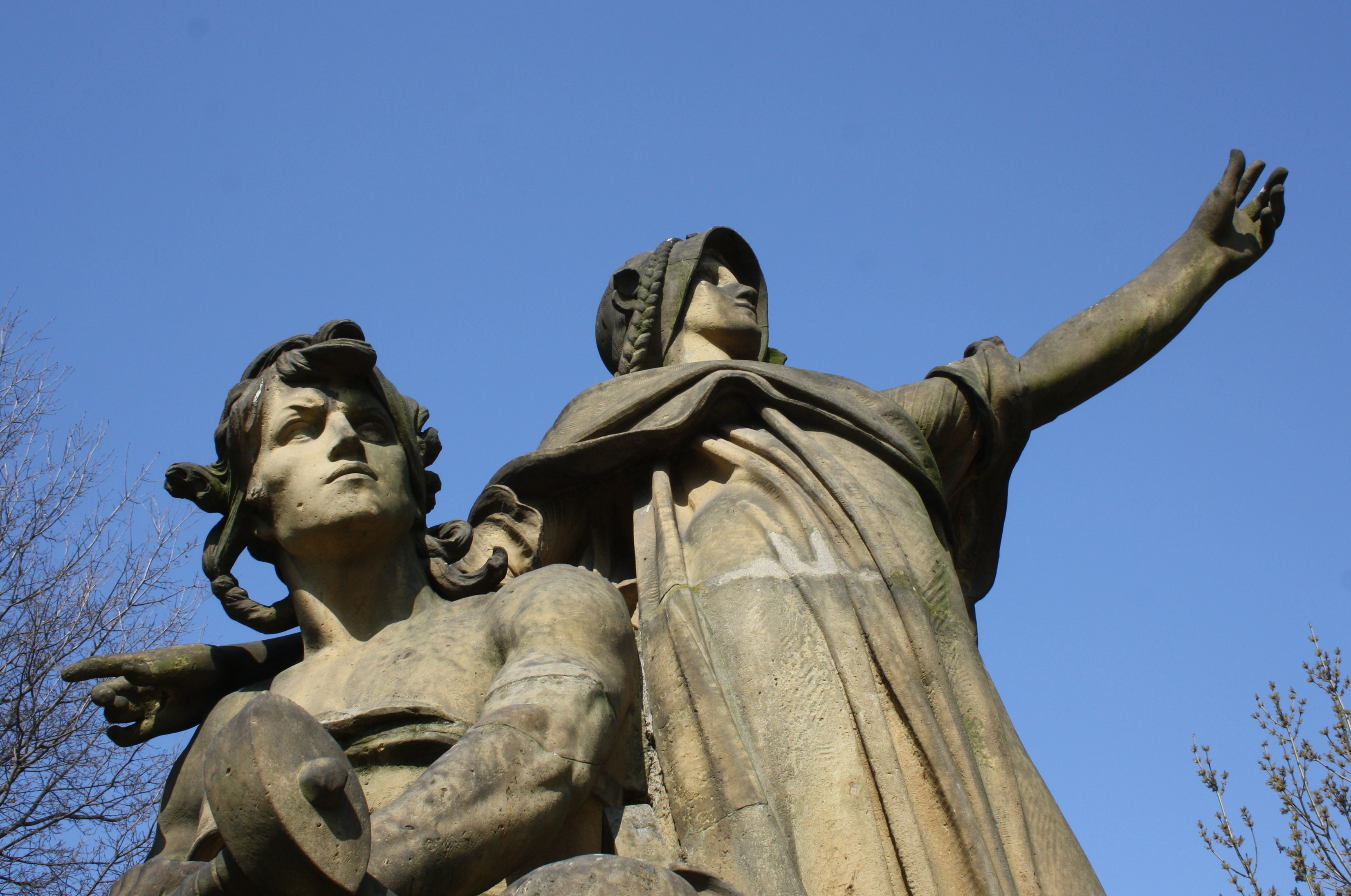 Statues of Libuše and Přemysl in park in Vyšehrad, Prague, Czech Republic This photograph was taken with a DSLR from WMCZ's Camera grant.